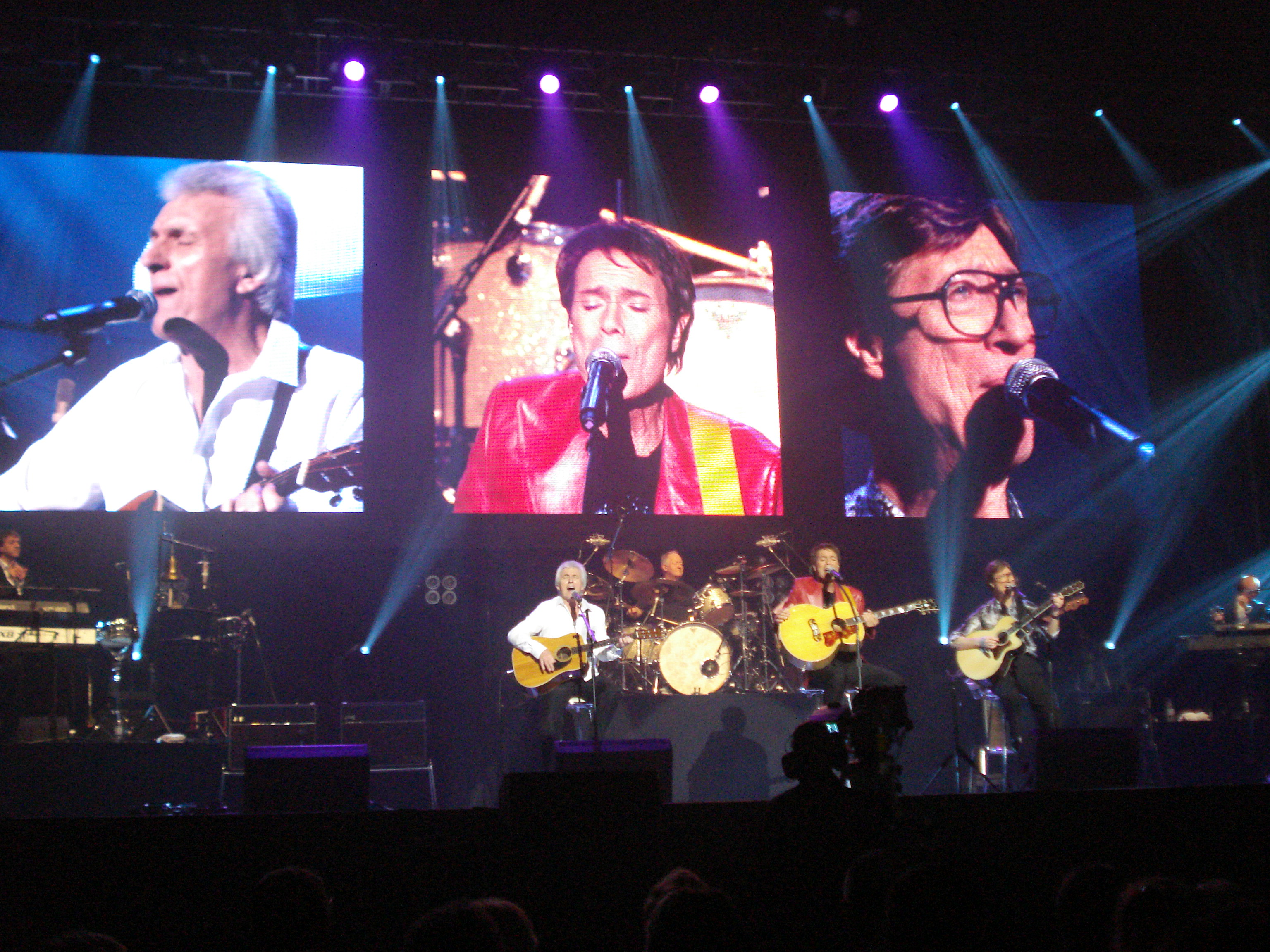 Cliff Richard and the Shadows 2009